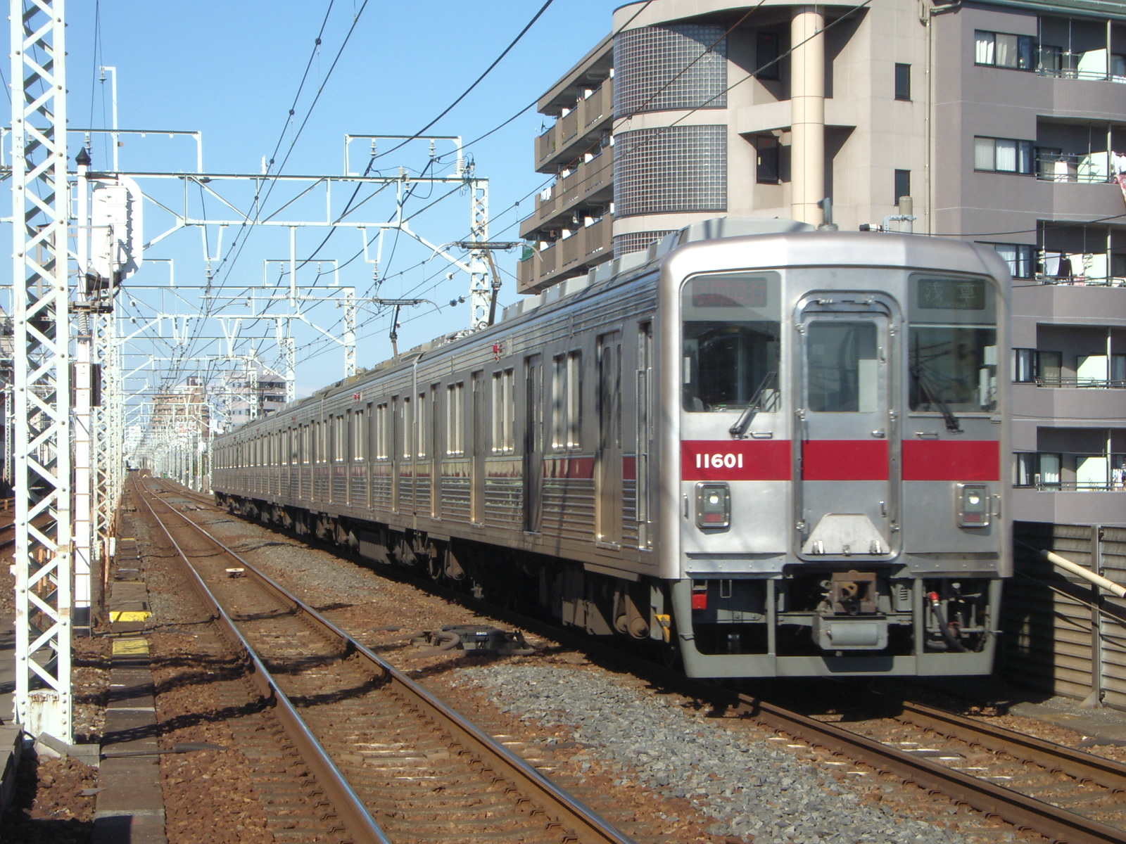 Tobu Railway refurbished 10000 series EMU set 11601